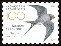 Stamp of Kazakhstan